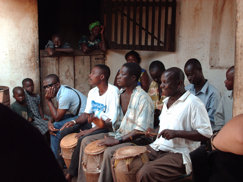 Drummers playing at a seremony, in western Ghana